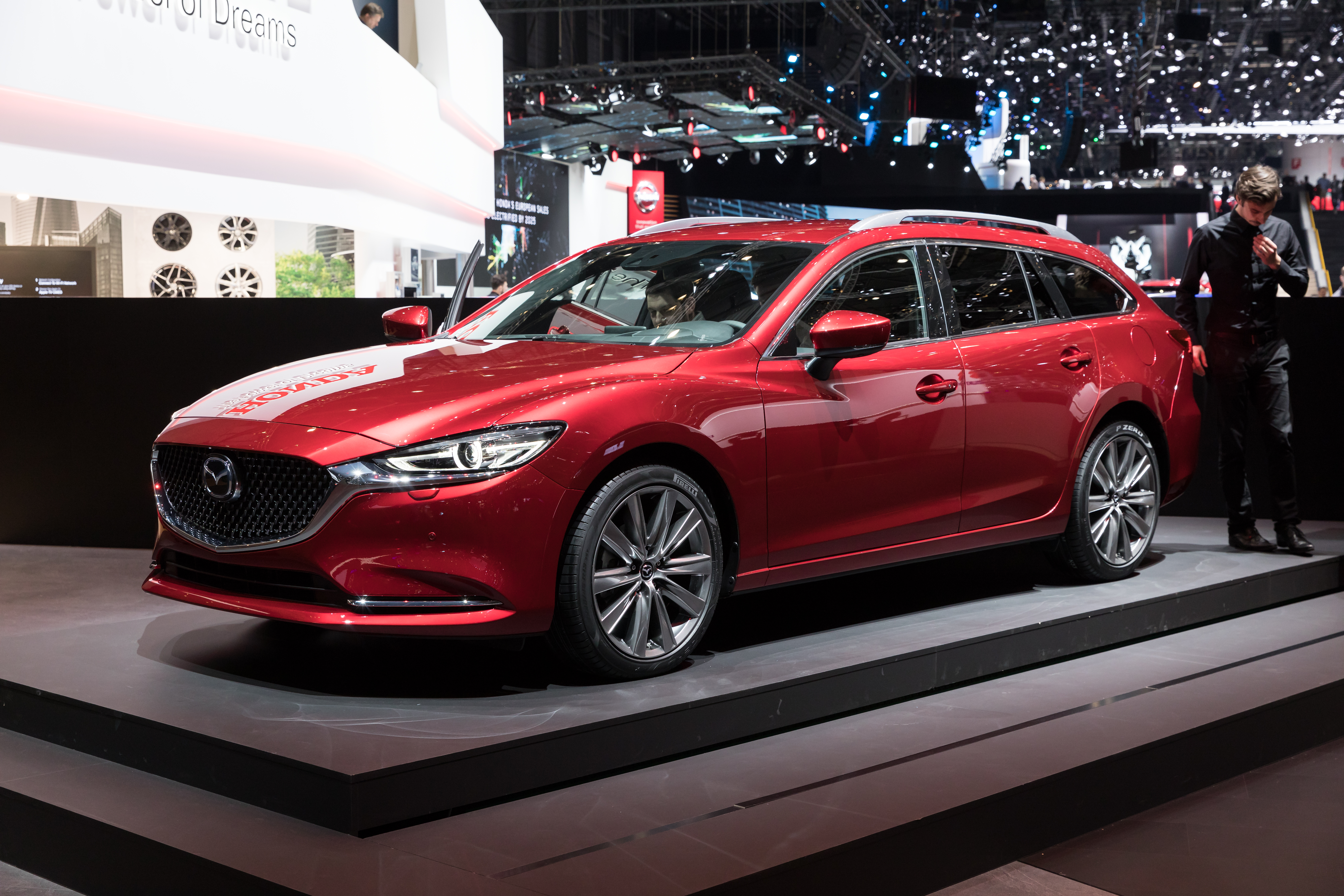 Mazda6, GIMS 2018